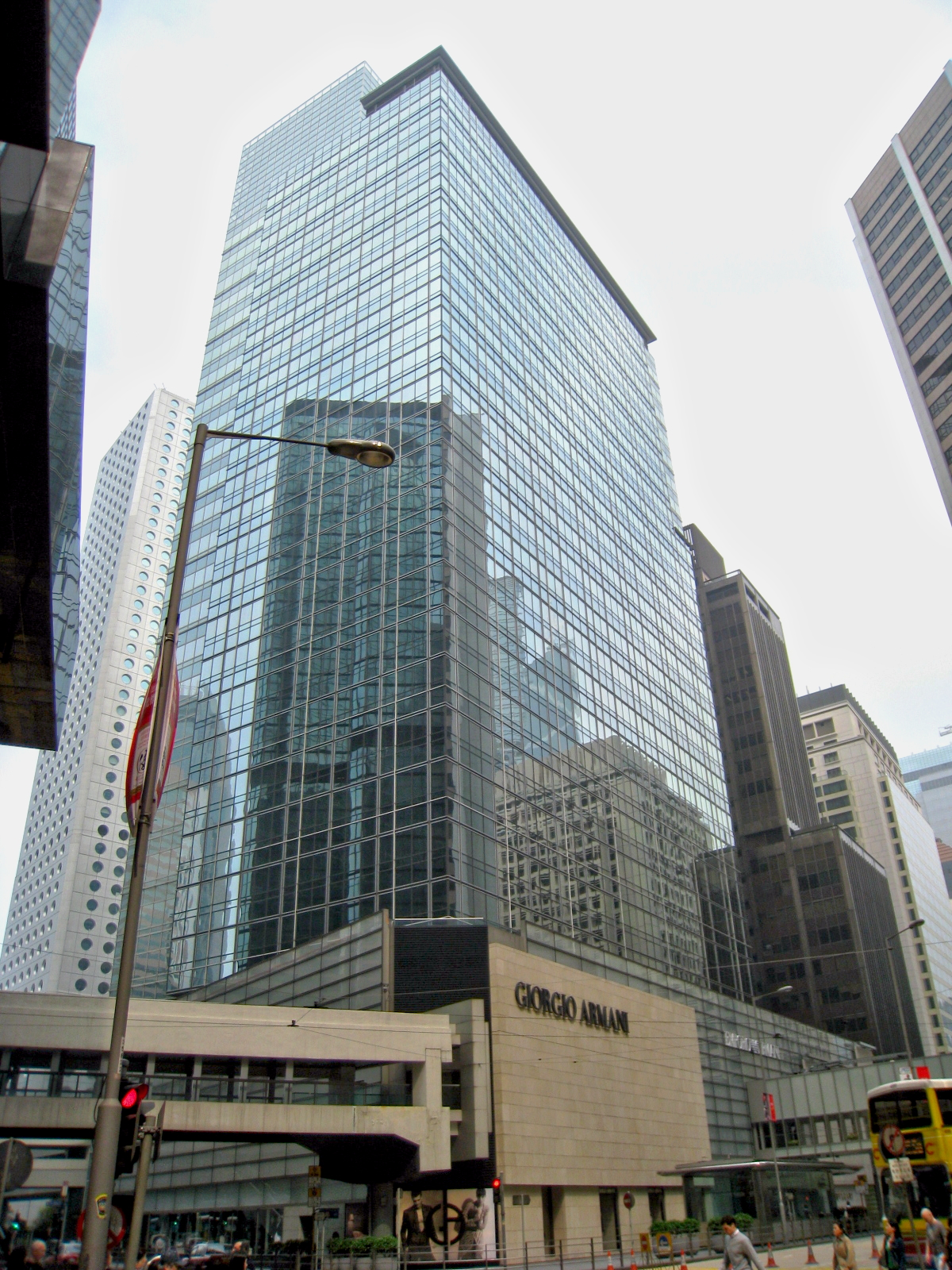 Chater House in Central, Hong Kong